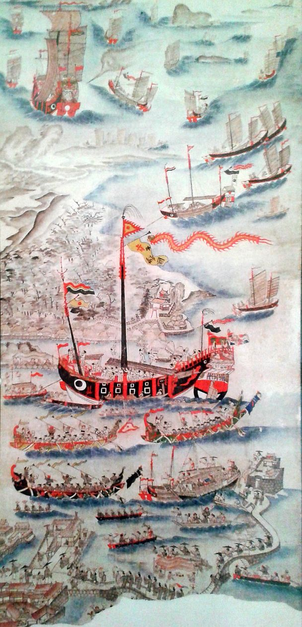 Japanese (Satsuma) ships off Okinawa (Ryukyu) in the 17th(?) century.